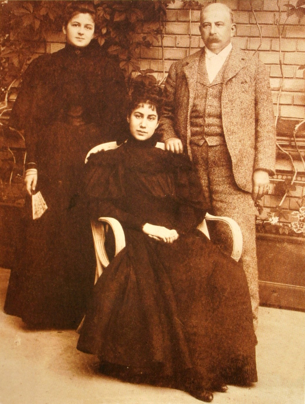 Photograph of Jules Porgès (1839-1921) with wife Anna (née Wodianer) and daughter